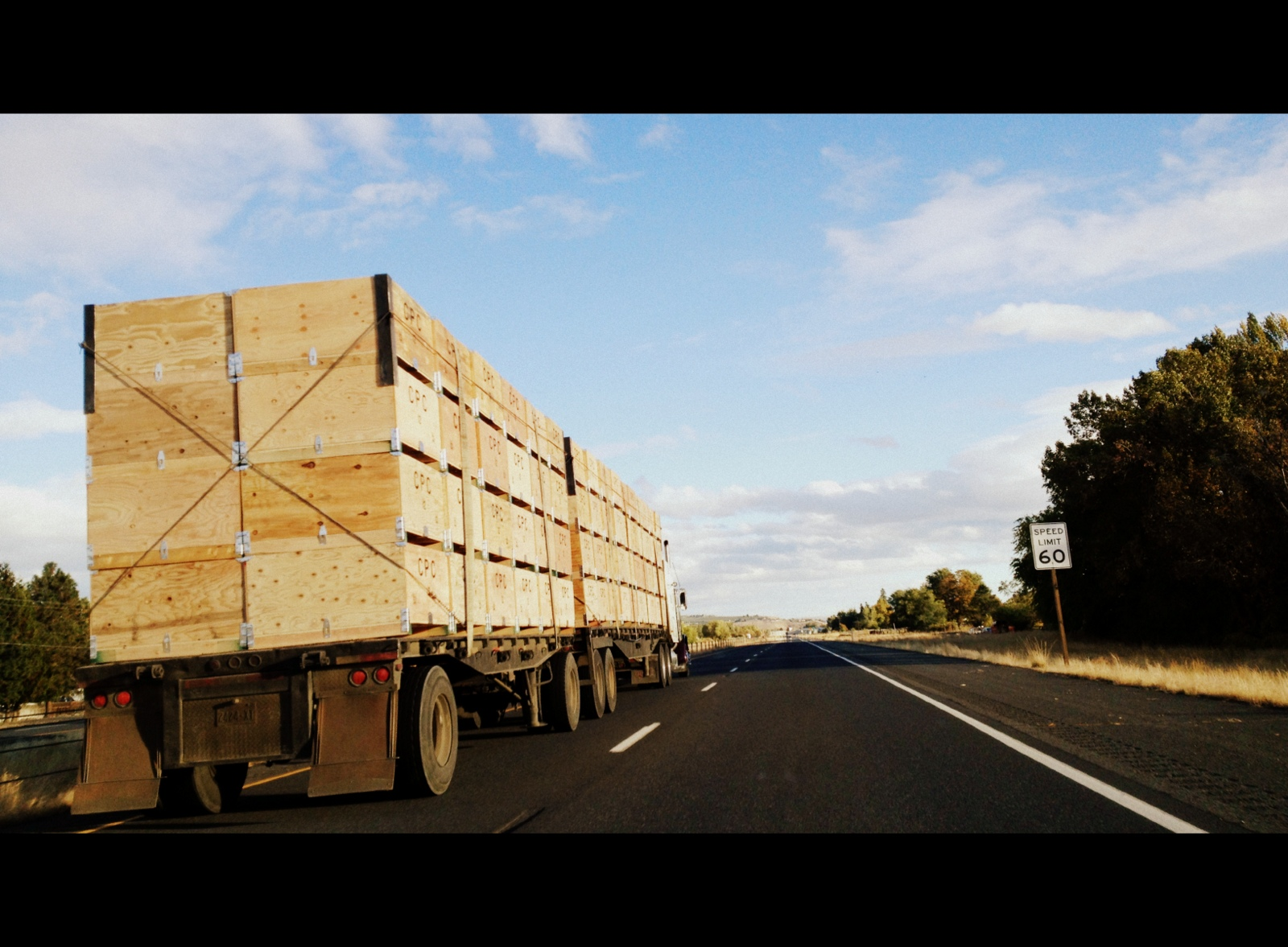 Then it was time to head back to Seattle. I think these apples beat mine back to town.